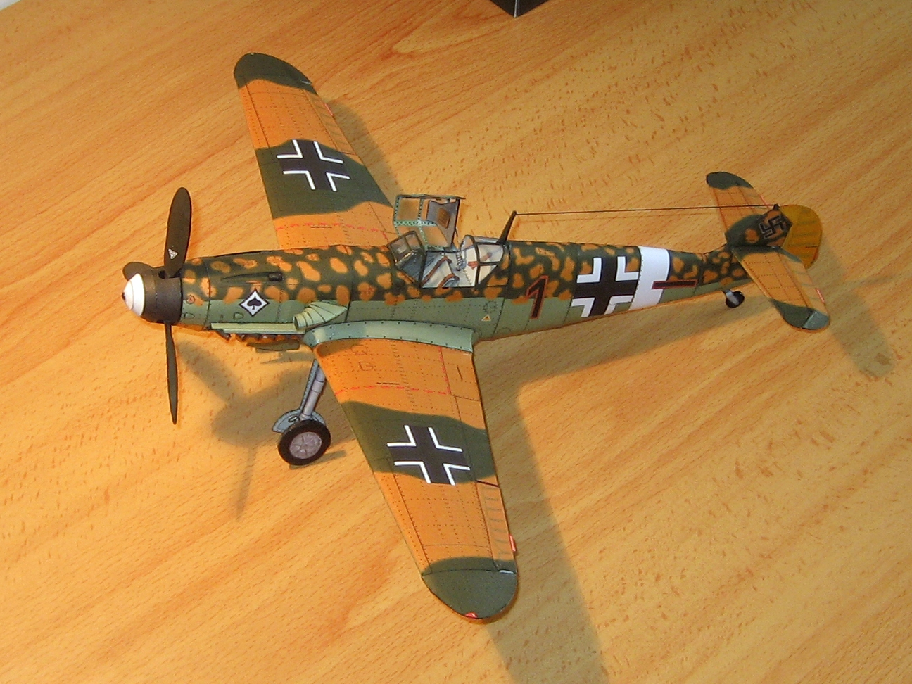 Messerschmitt Bf 109 G2 paper model. Scale 1/33.